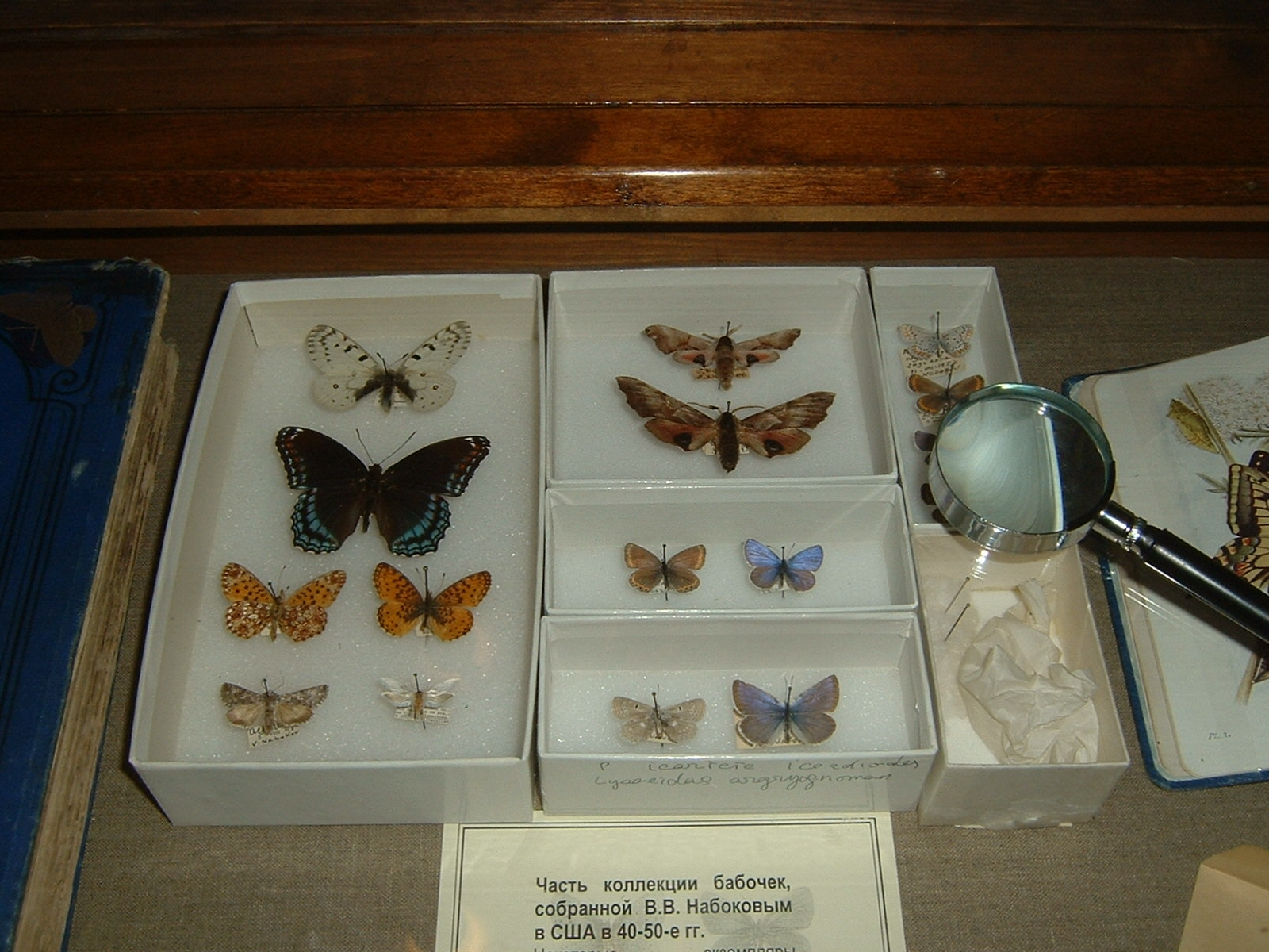 Butterflies colected by Vladimir Nabokov Colection of Nabokov House